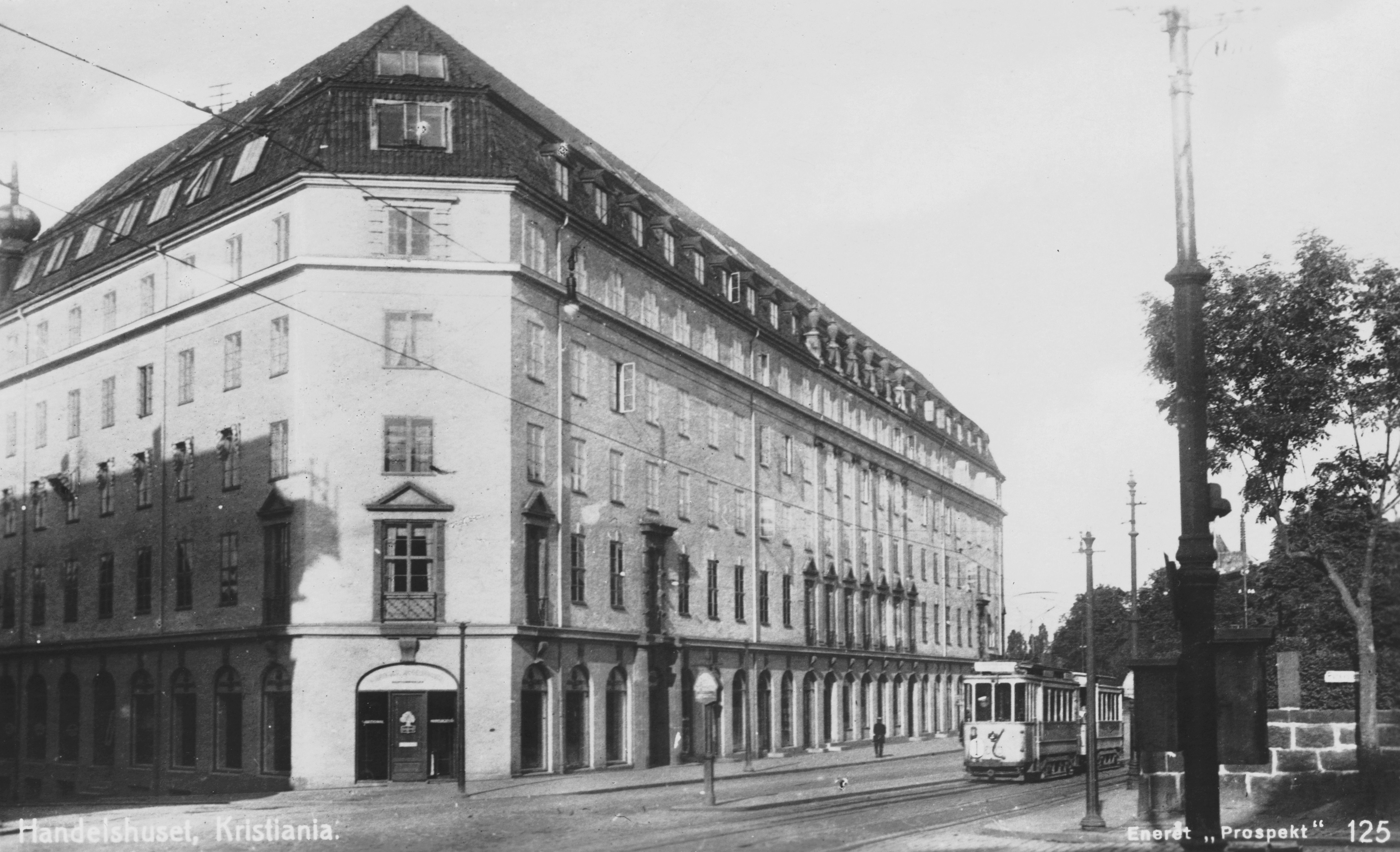 Handelsbygningen, Henrik Ibsens gate 60 in Oslo, Norway, officebuilding from 1917-18, architect Niels Winge Gimnes.